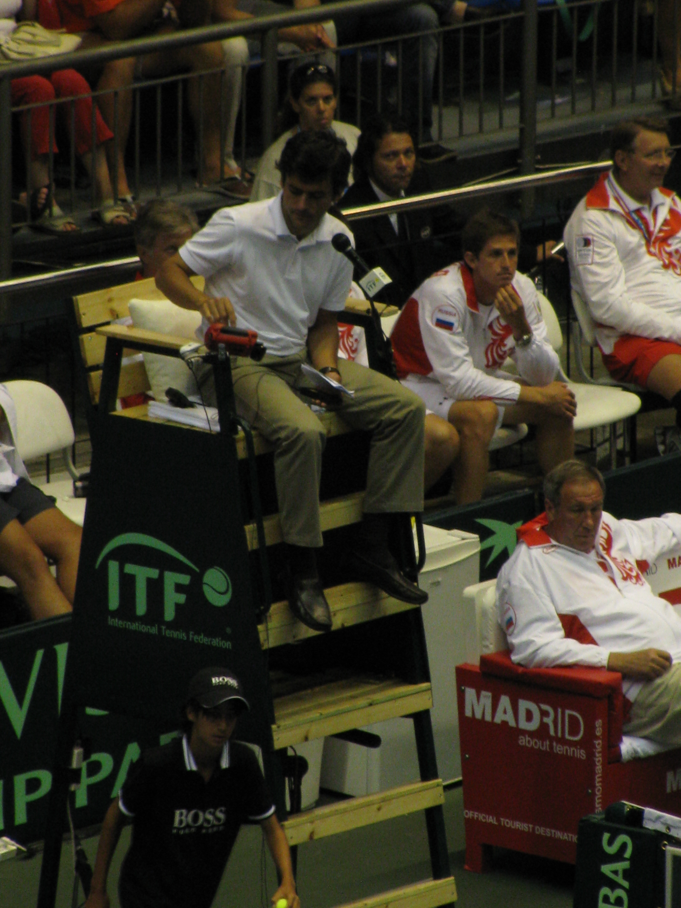 Official during 2009 Davis Cup World Groupe Quarterfinals match between Israel and Russia